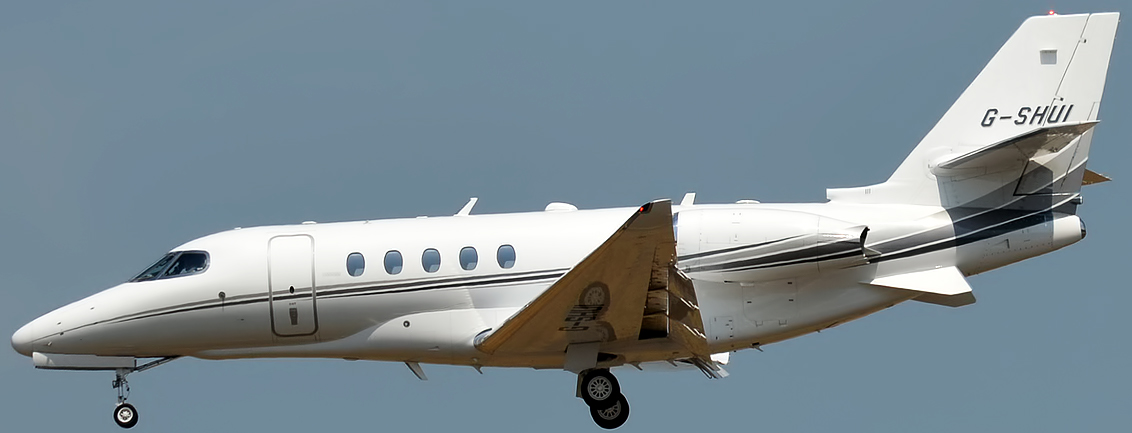 Air Charter Scotland, G-SHUI, Cessna 680A Citation Latitude